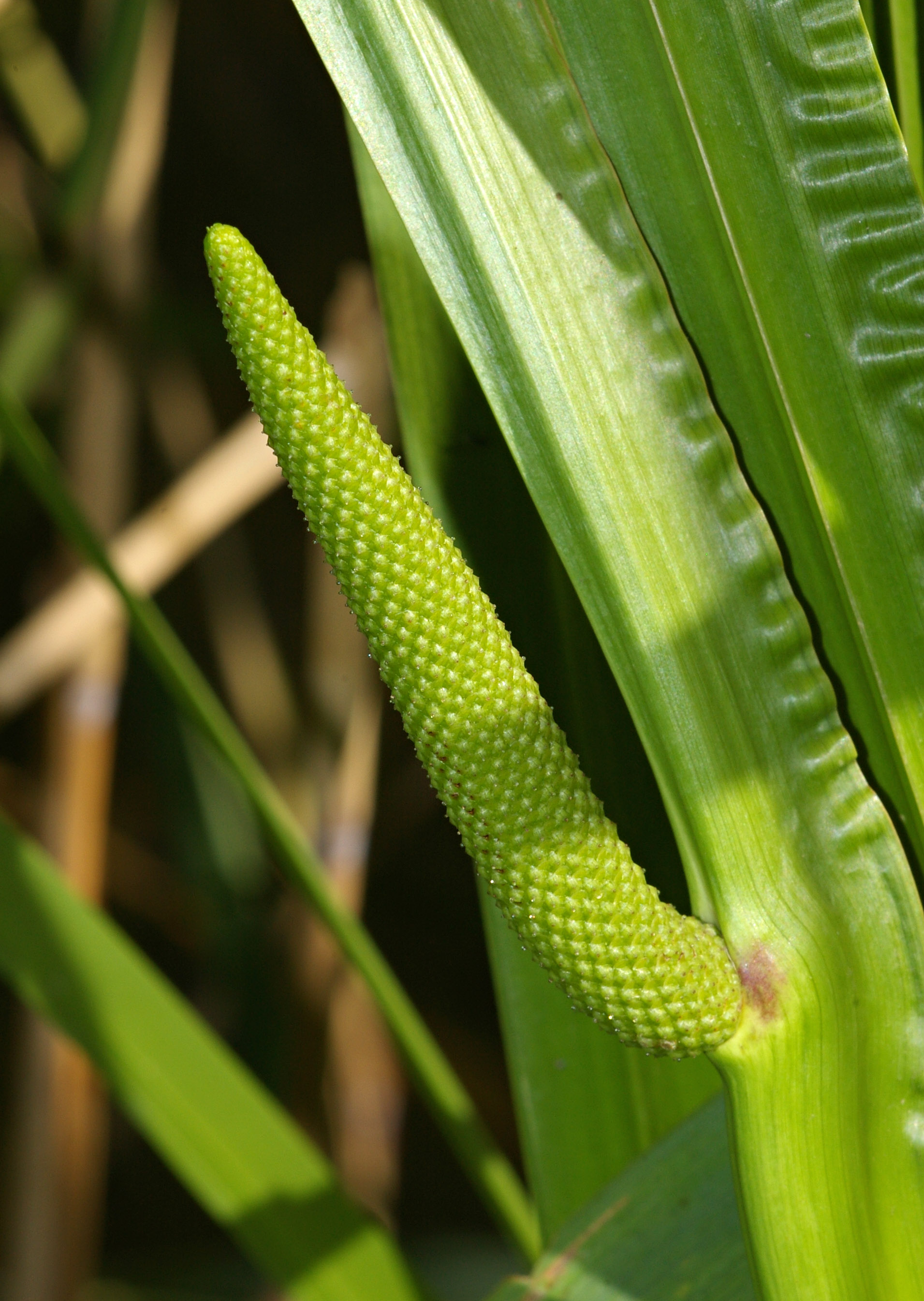 Inflorescence of Acorus calamus. North-eastern Lower Saxony, Germany.